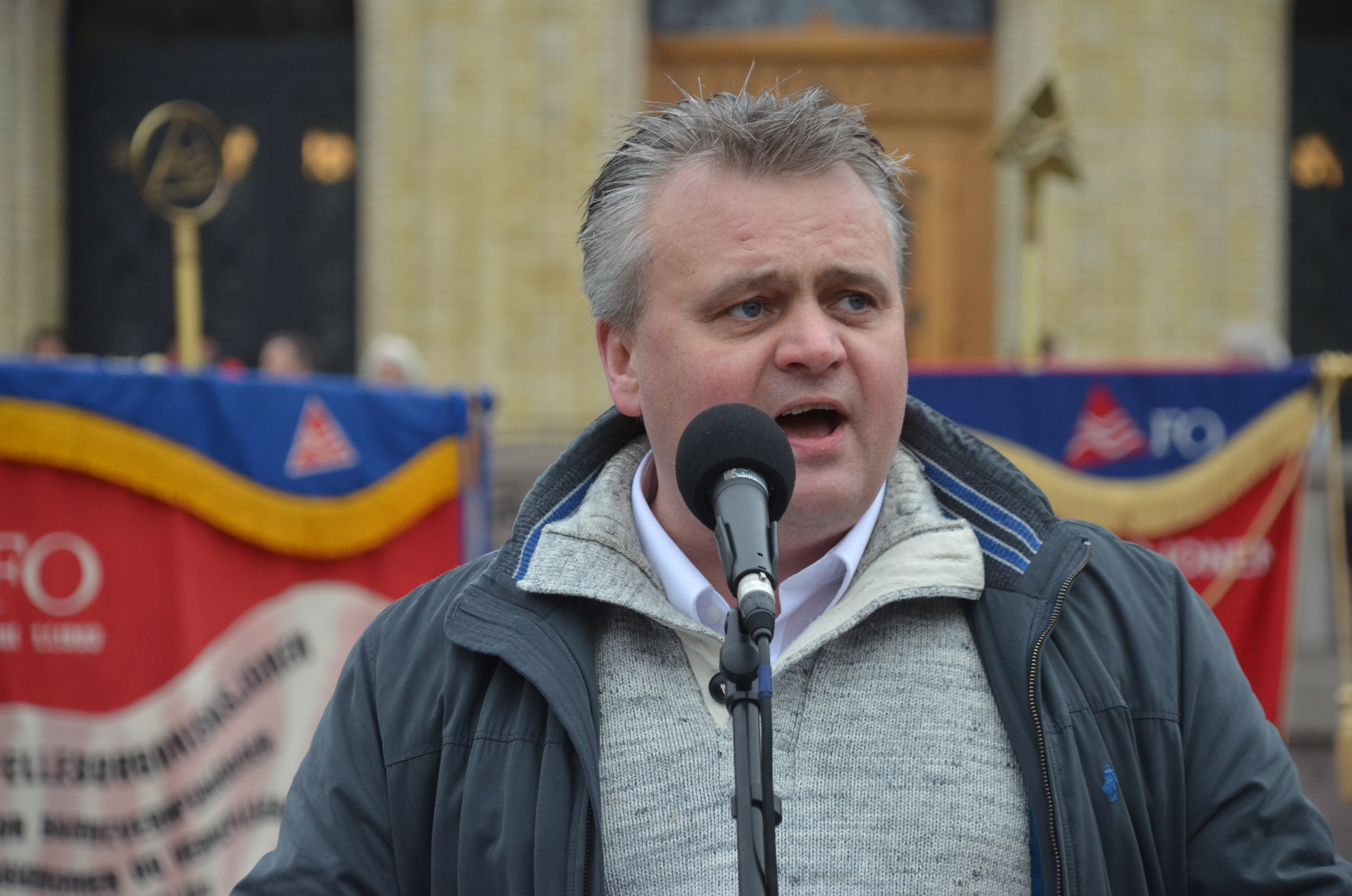 Norwegian trade unionist Jørn Eggum speaking at a rally in 2017.